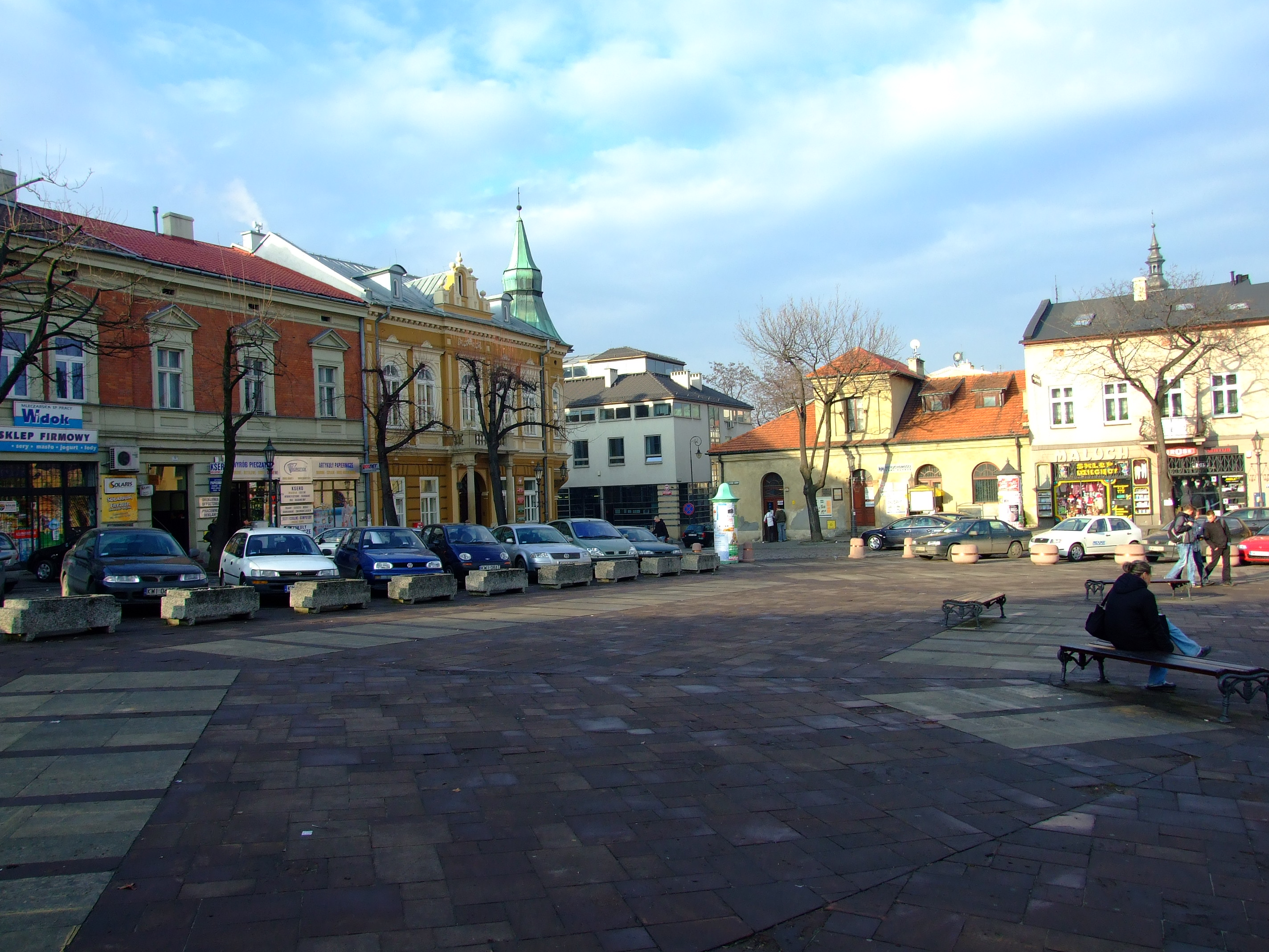 A square in the city of Wieliczka, Lesser Polish Voivodship, Polandhelp